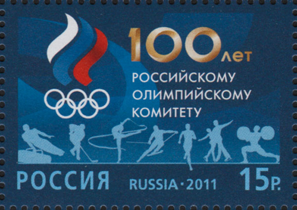 100th anniversary of the Russian Olympic Committee